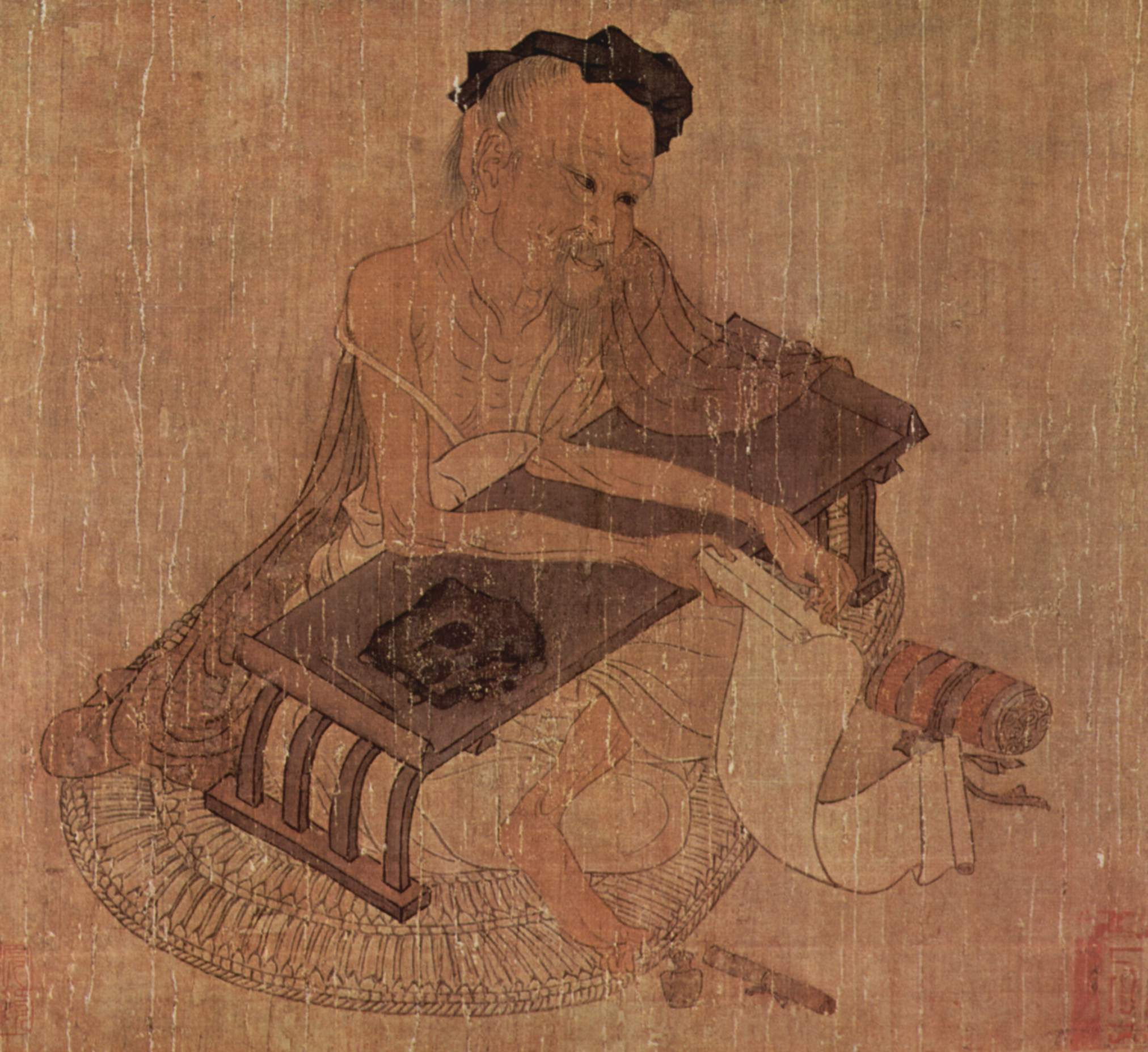 handscroll, detail: Portrait of Fu Sheng